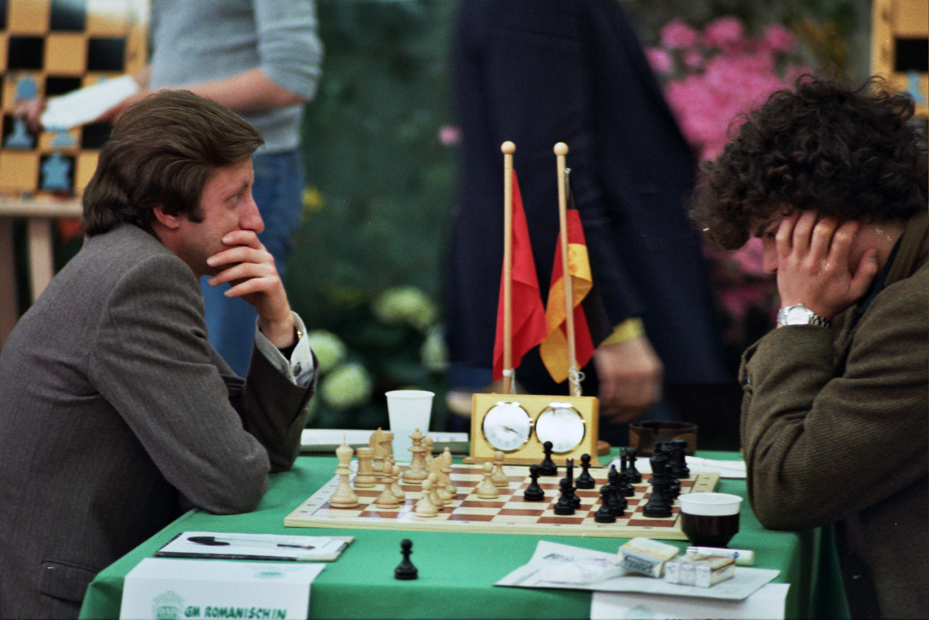 Oleg Romanishin - Eric Lobron, Dortmunder Schachtage 1982, Photographer Gerhard Hund.